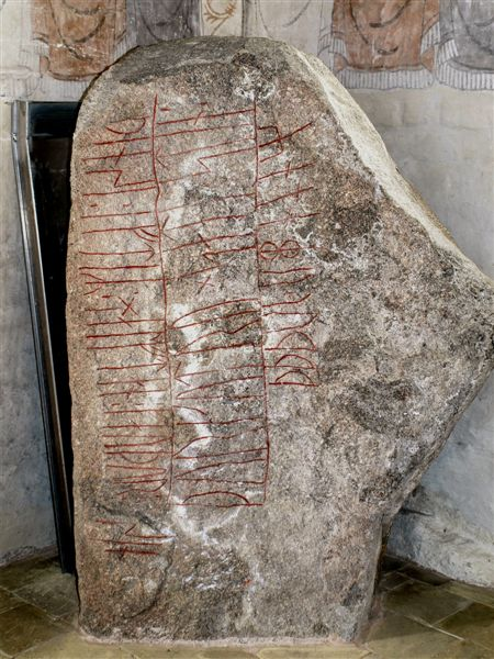 Runestone DR EM85;239 at the church in Gørlev.